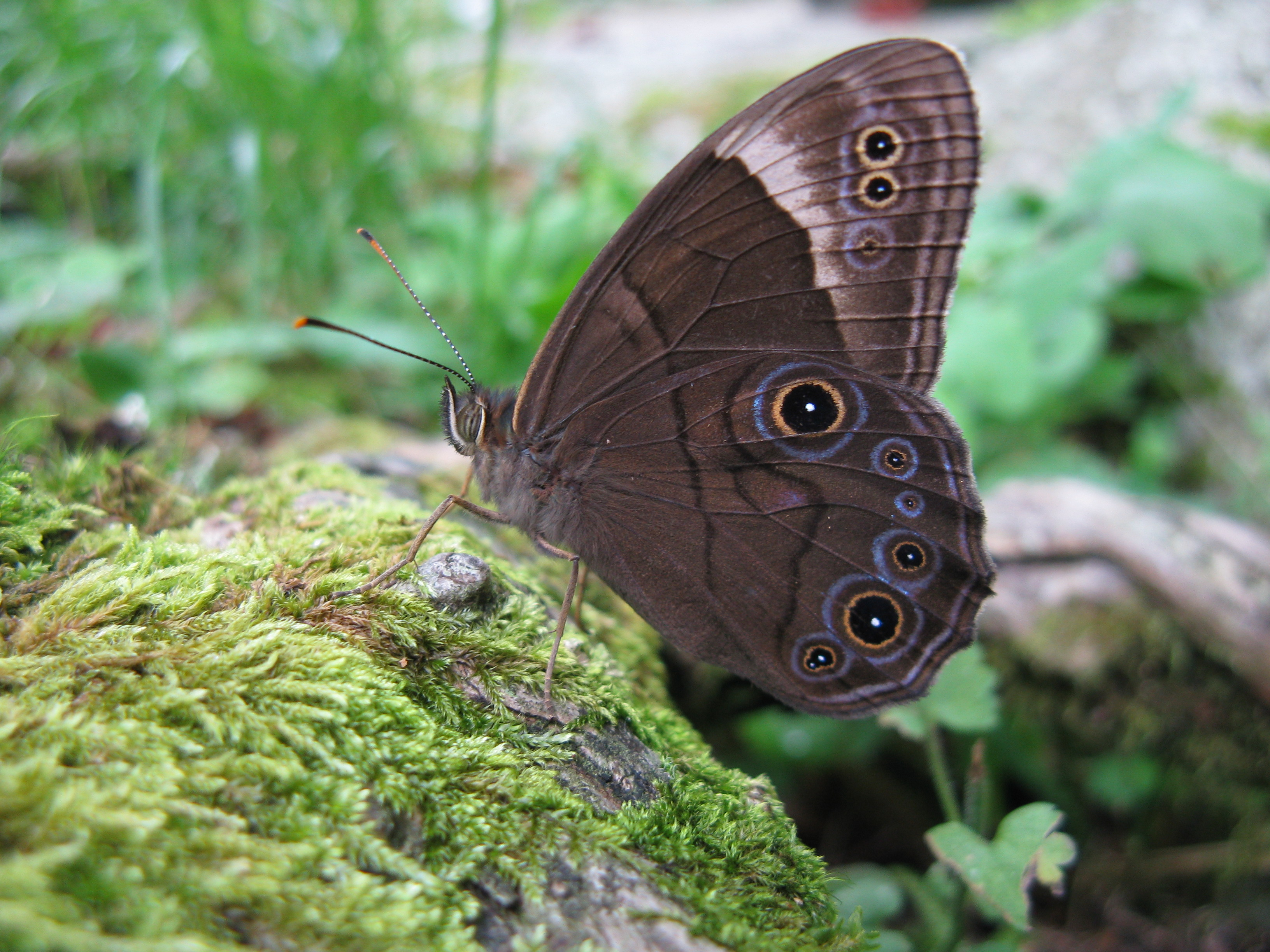 Lethe diana